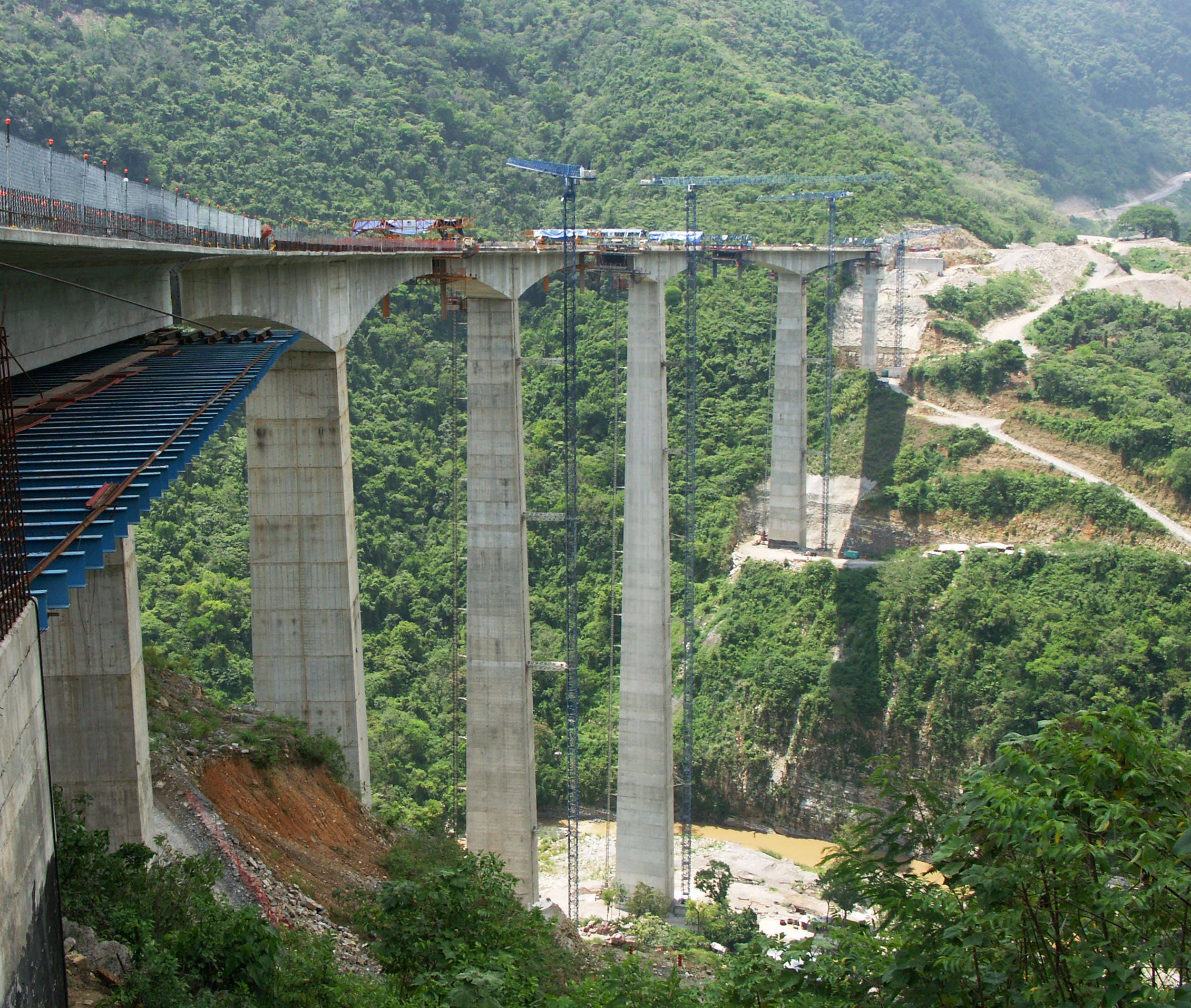 View of San Marcos Bridge looking North during 2012 construction.